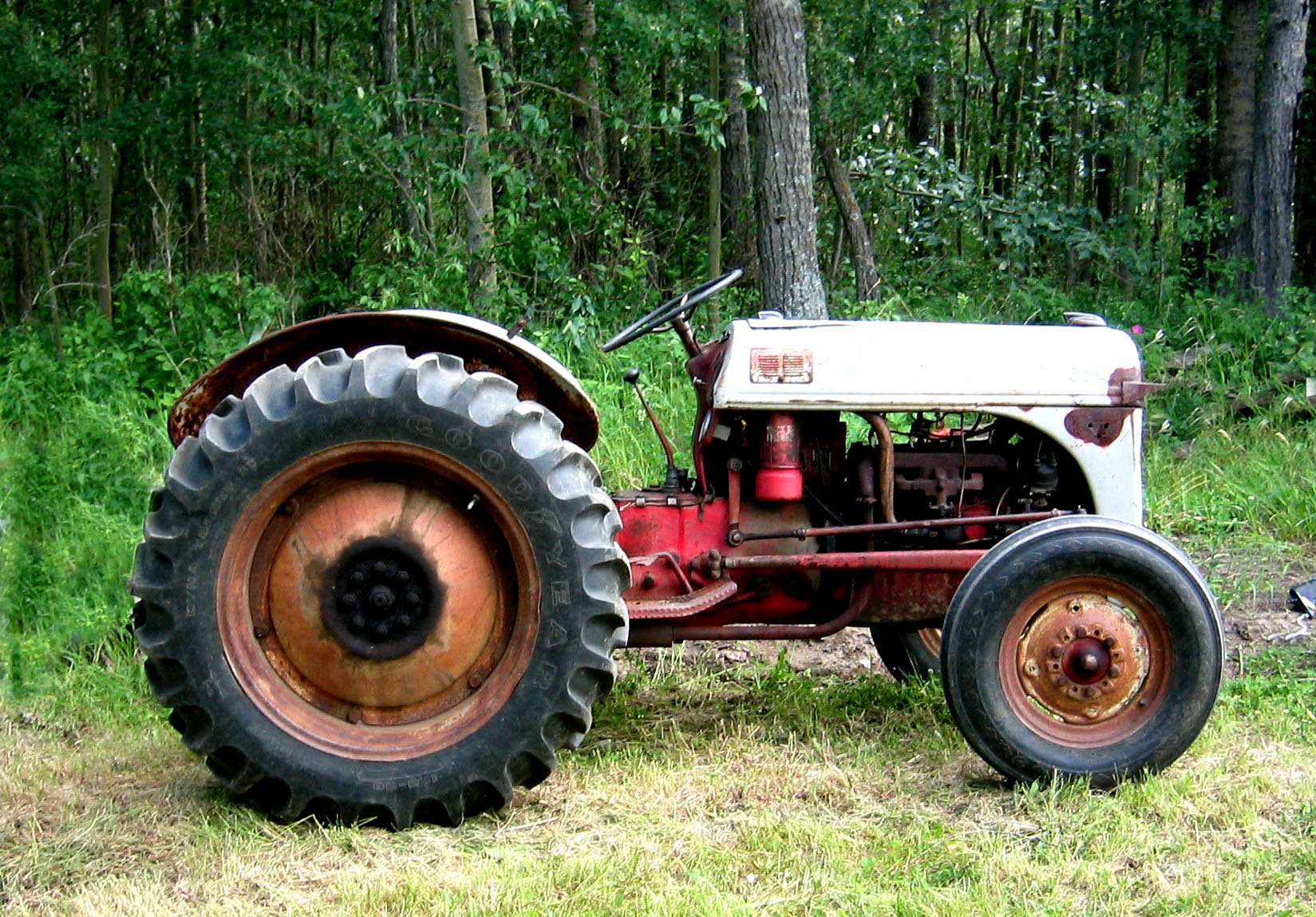 Ford 8N tractor